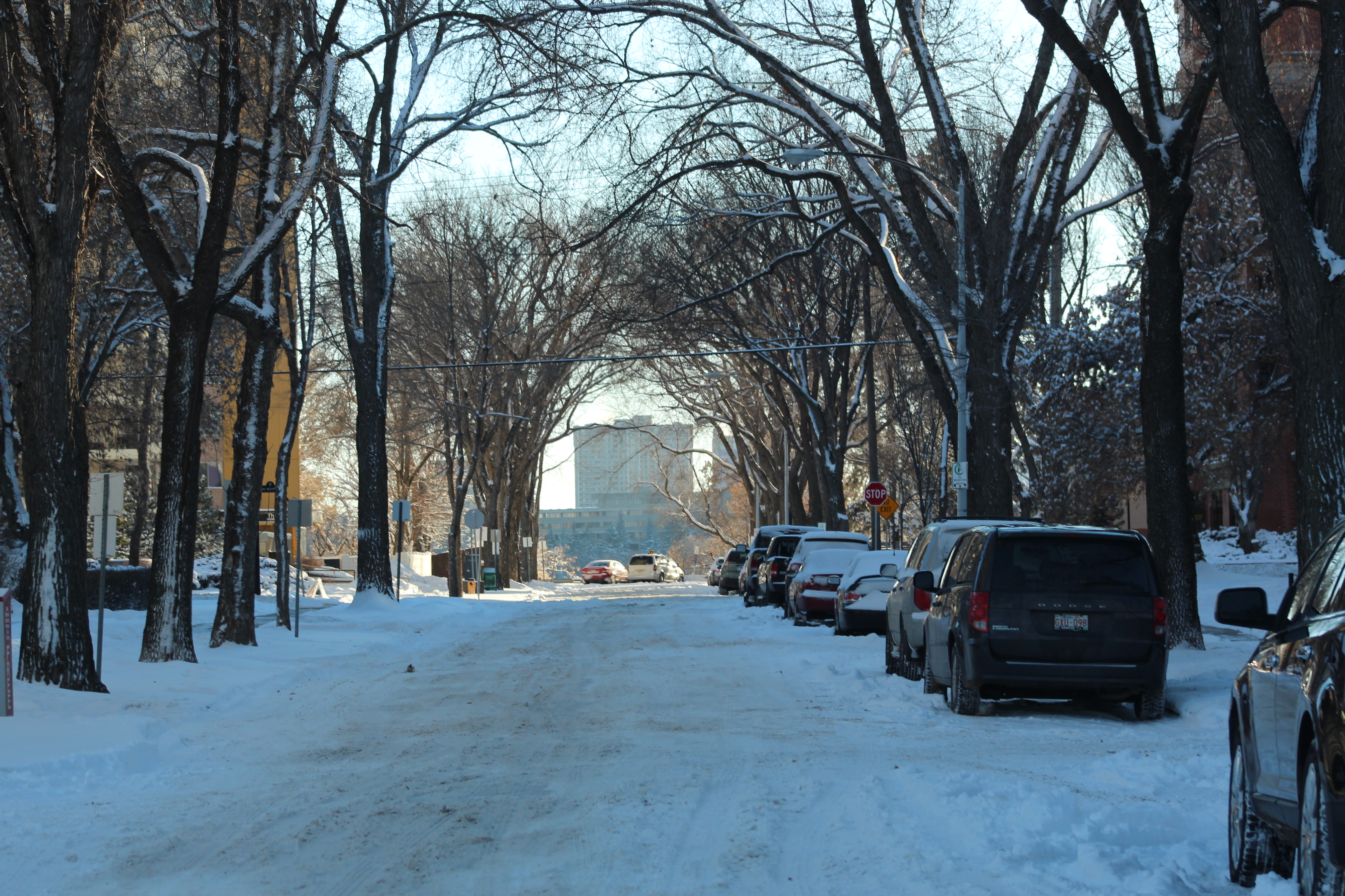 Looking south on 115 Street near 99 Avenue. Edmonton, Alberta